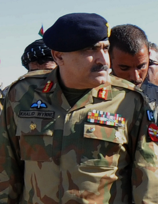 Pakistani Army Lt. Gen. Khalid Wynne, commander of Southern Command, at the Friendship Gate border crossing, in Spin Boldak, Afghanistan.